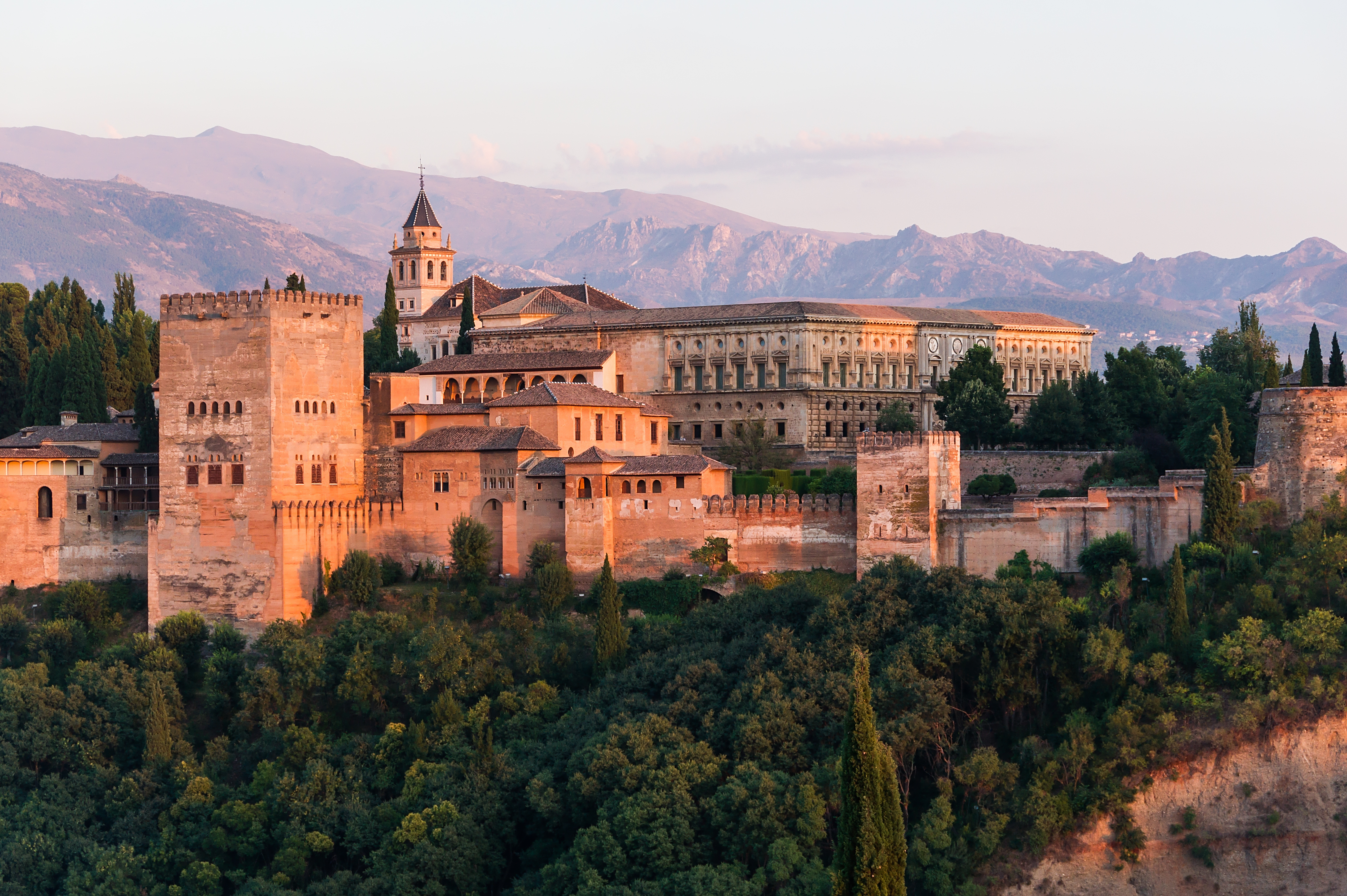 Dawn on Charles V palace in Alhambra, Granada, Spain.